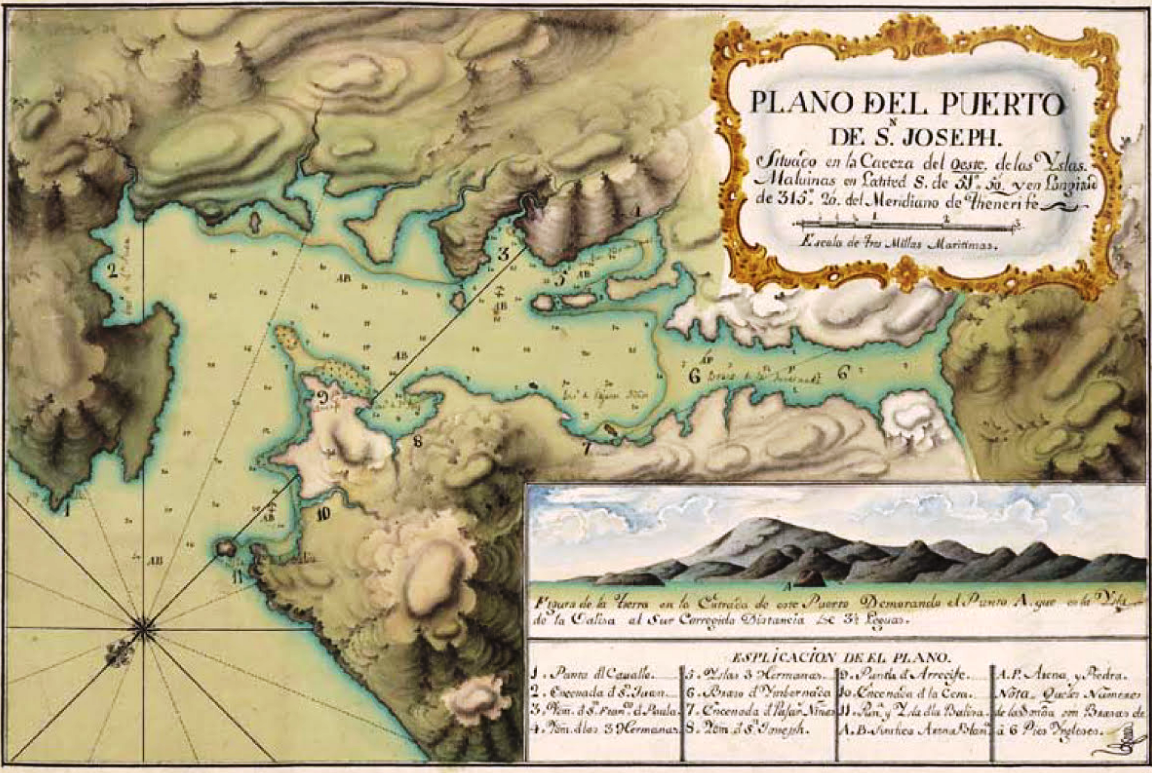 A late 18th century Spanish map of Chatham Harbour, Weddell Island, South Atlantic.